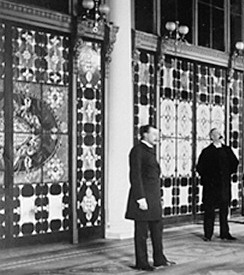 The Entrance Hall of the White House in 1882, showing the new Tiffany glass screen installed by Louis Comfort Tiffany